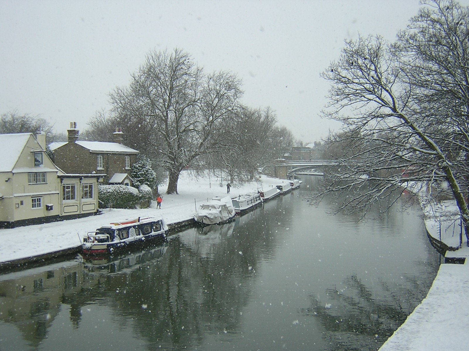 Barges by a snowy Fort St George